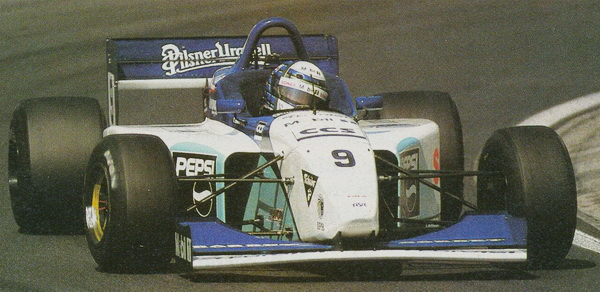 Tomas Enge - F3000 1998